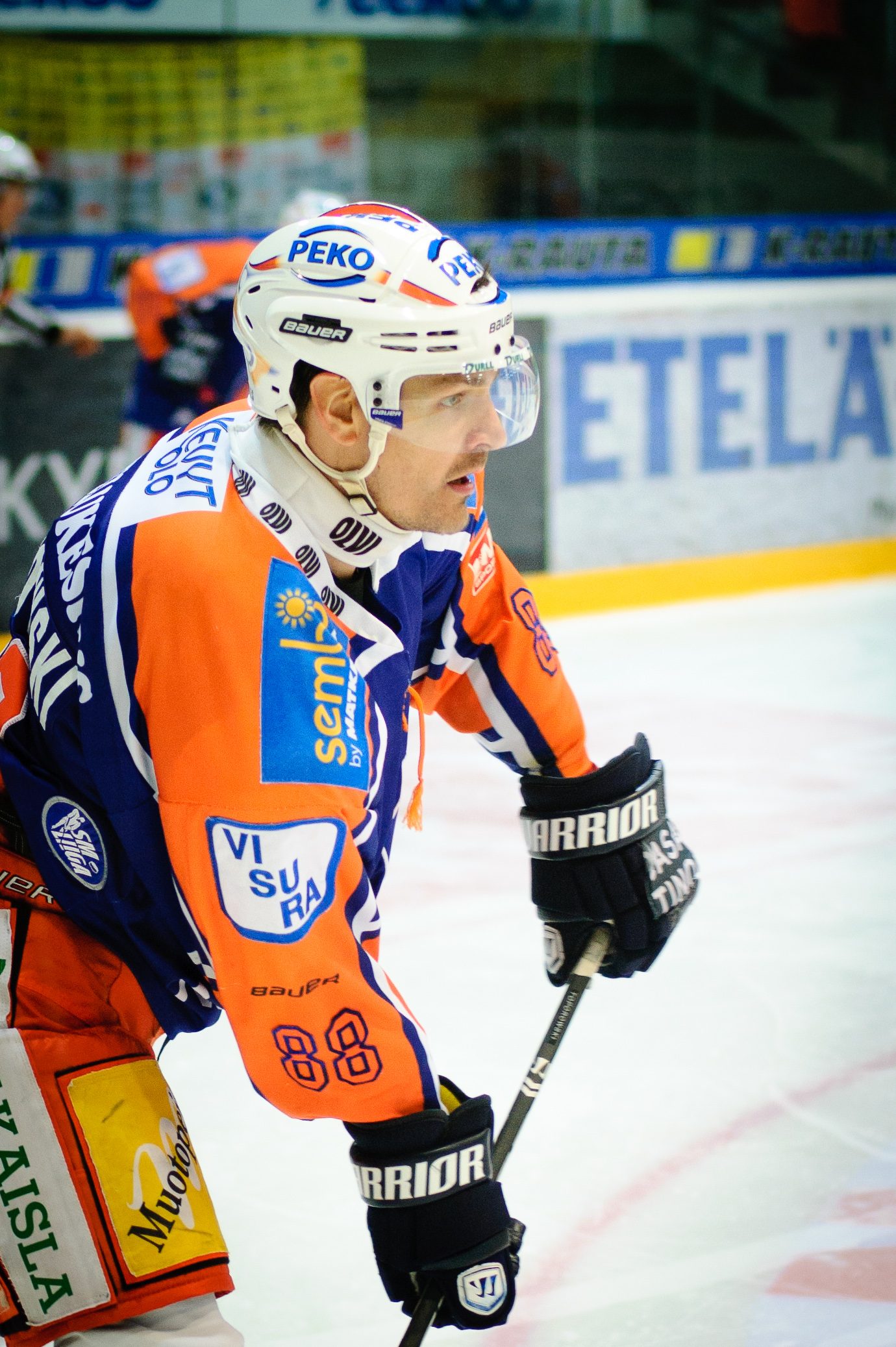 Canadian ice hockey player Shayne Toporowski playing for Tappara Tampere against SaiPa Lappeenranta in the Finnish SM-liiga in Lappeenranta, Finland.